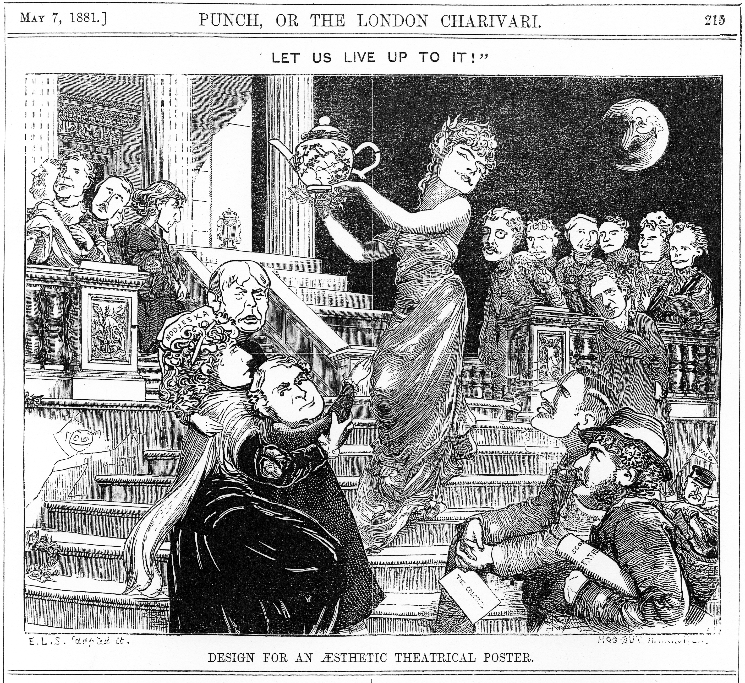 "Design for an Æsthetic Theatrical Poster" from the May 7, 1881 issue of Punch. Gilbert and Sullivan's Patience and F. C. Burnand's The Colonel had only just premièred, and it was a hot topic. Note the tiny W.S. Gilbert in the lower right.